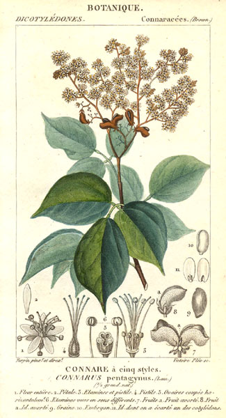 Illustration of Agelaea lamarckii (Orig. Connarus pentagynus)